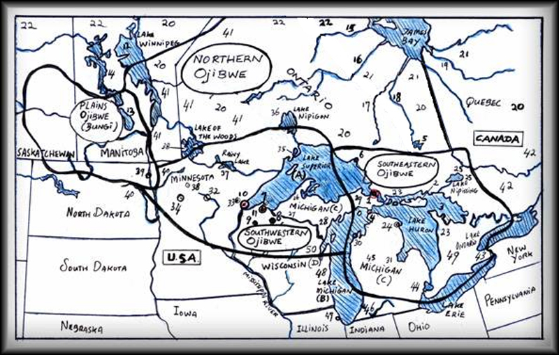 Anishinaane Aki including NAN